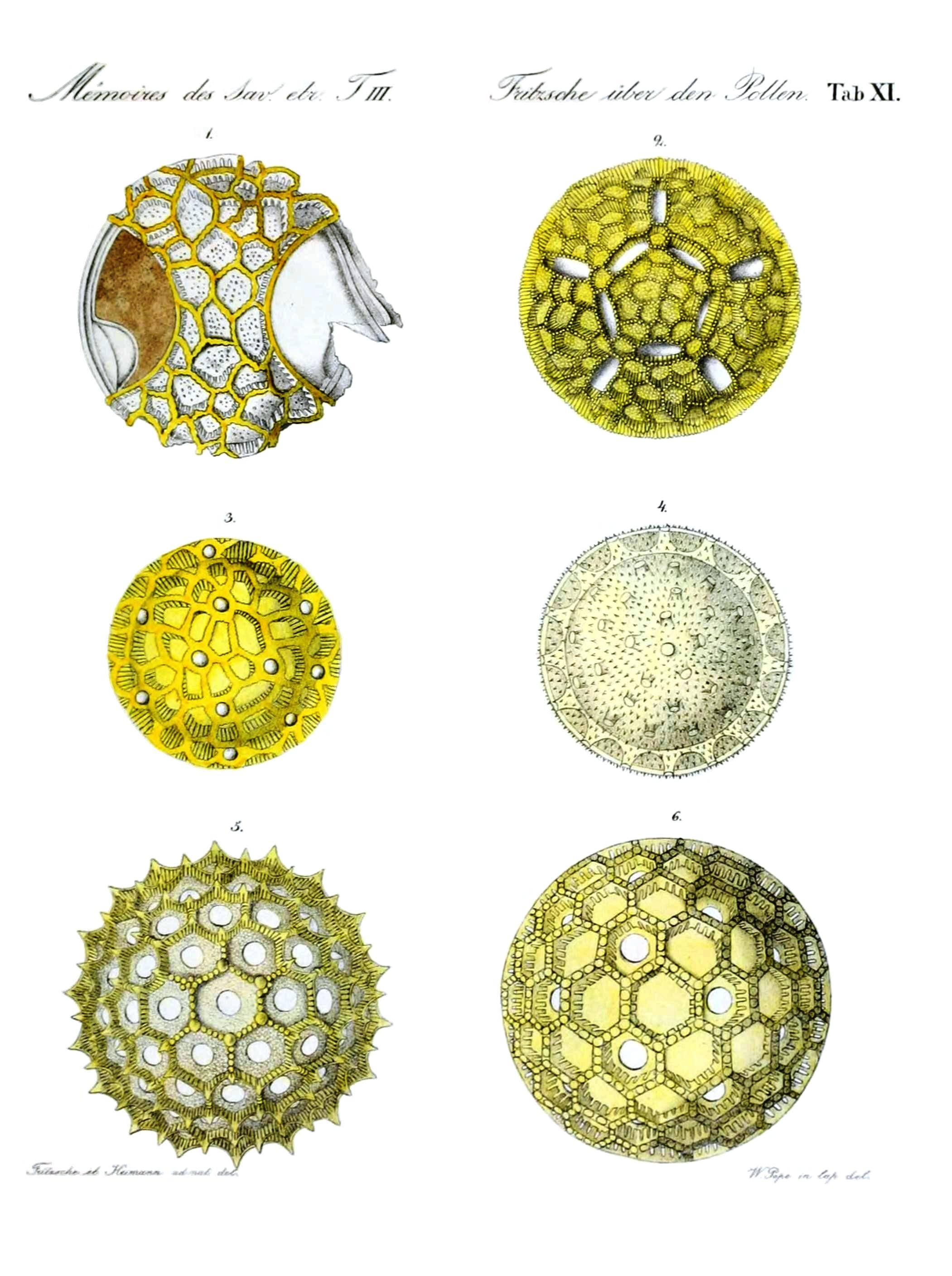 n150_w1150, Ueber den Pollen, von Julius Fritzsche. St.-Petersburg: Kais. Academie der Wissenschaften, 1837. taxonomy: binomial=Tigridia pavonia taxonomy: binomial=Polygonum amphibium taxonomy: binomial=Phlox undulata taxonomy: binomial=Mirabilis jalappa taxonomy: binomial=Ipomaea purpurea taxonomy: binomial=Cobaea scandens